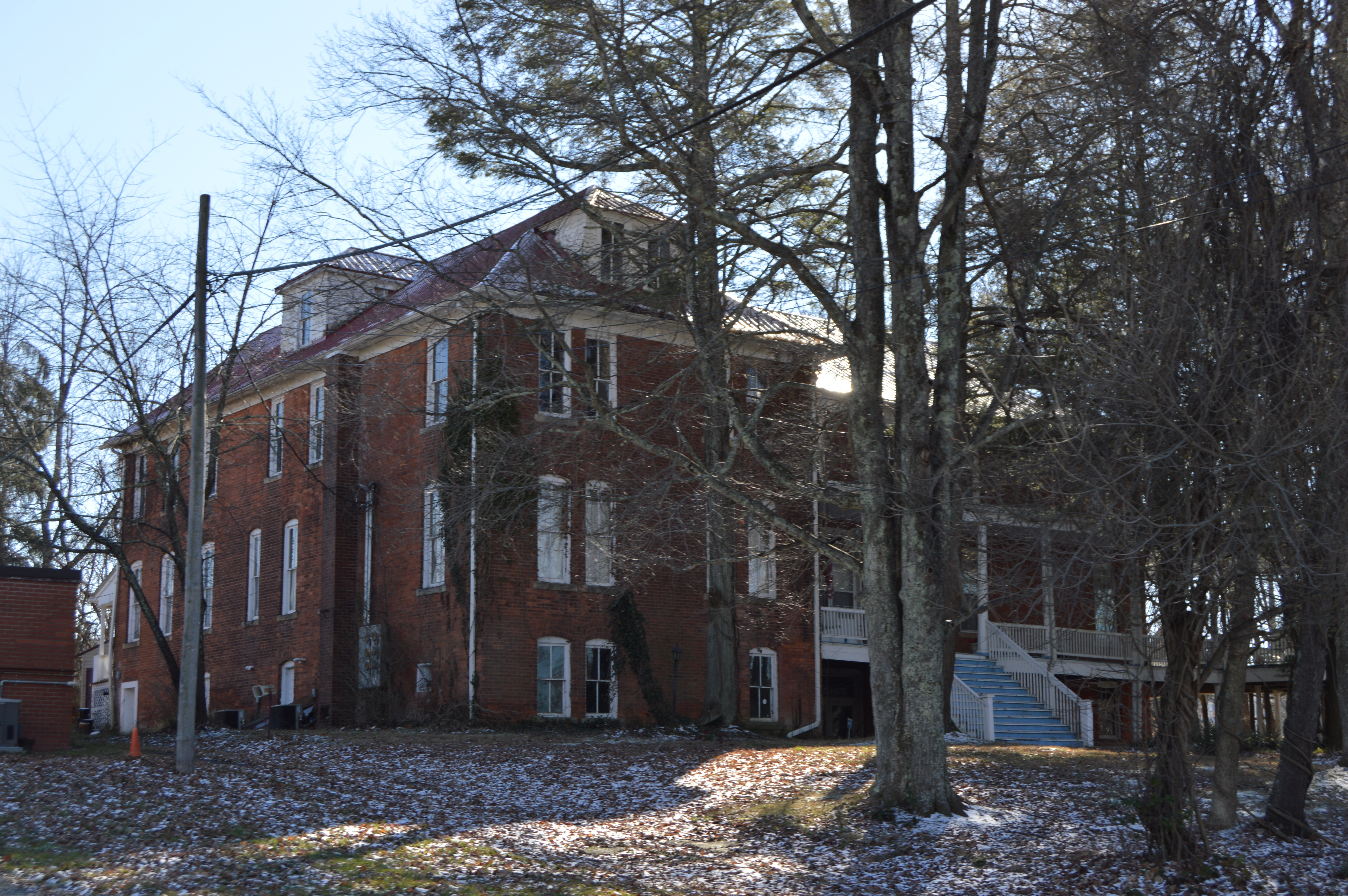 Front of the Altamont Hotel, located at 110 Fayette Avenue in Fayetteville, West Virginia, United States. Built in 1897, it is listed on the National Register of Historic Places.